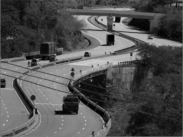 Mumbai-Pune Expressway